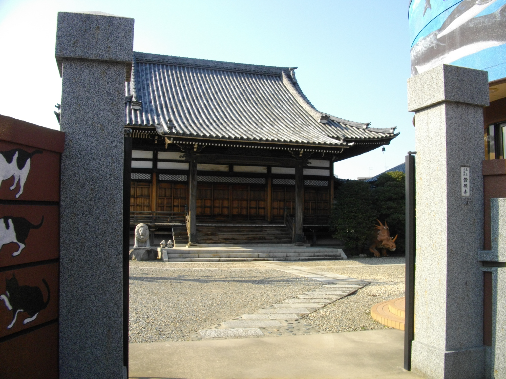 Shogan-ji (Katsushika)